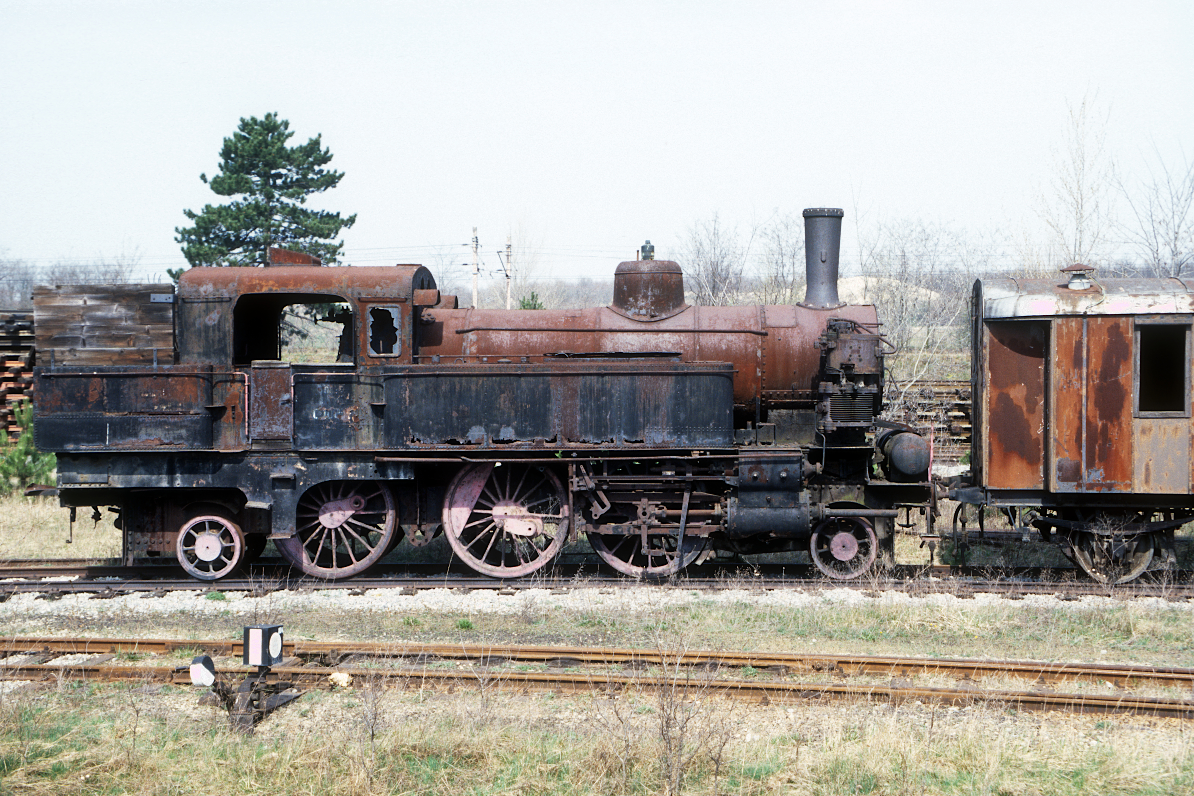 ÖBB tank engine 175.817 (ex kkStB 29.22), last survivung member of the class, at Straßhof railway museum